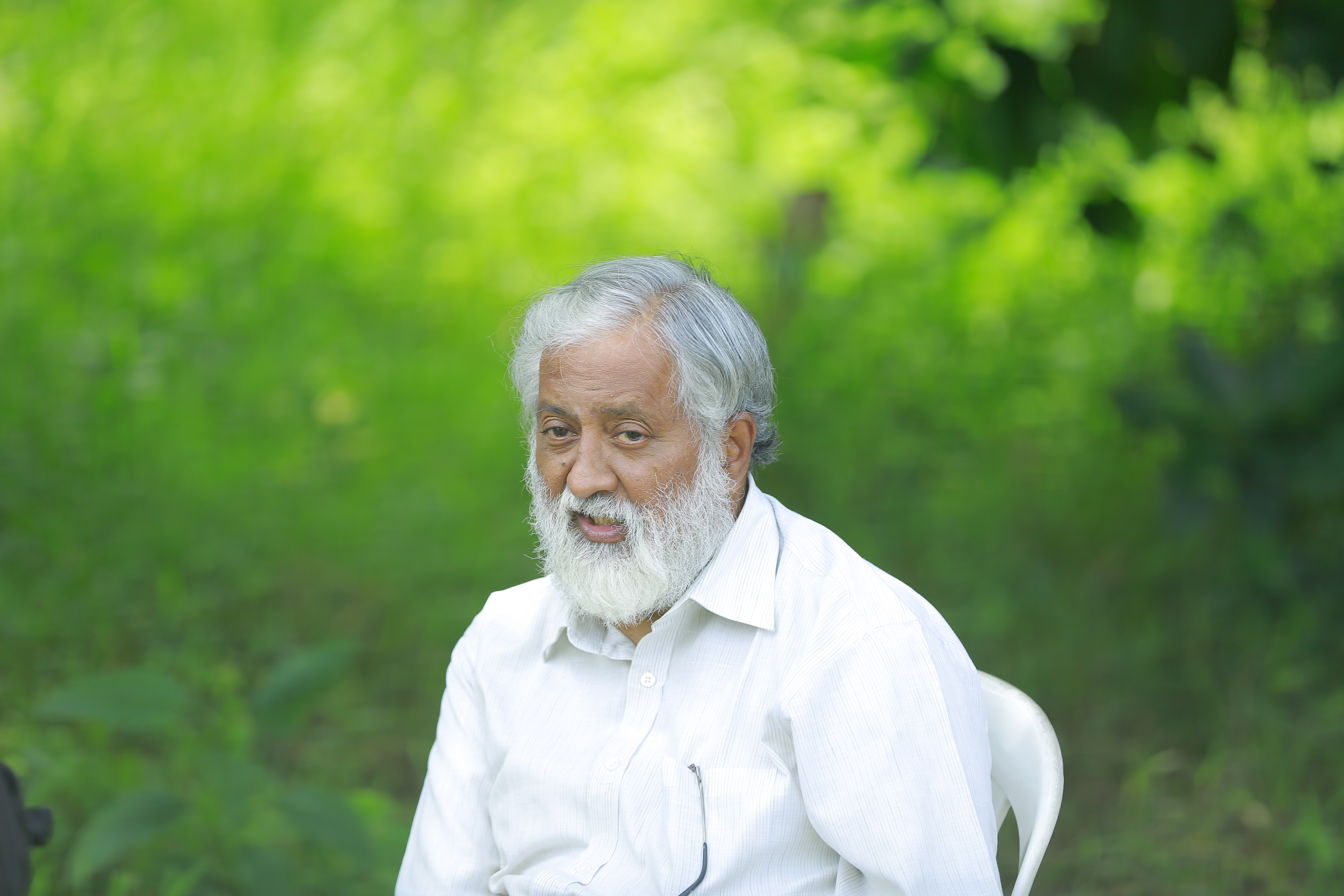 Madhu Ambat - renowned Cinematographer of India